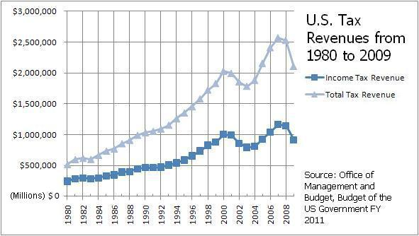 This image depicts the total tax revenue (not adjusted for inflation) for the U.S. federal government from 1980 to 2009 compared to the amount of revenue coming from individual income taxes. The data comes from the Office of Management and Budget's record of the 'Budget of the US Government FY 2011', specifically the 'Historical Tables, Table 2.1.' The information is also here.